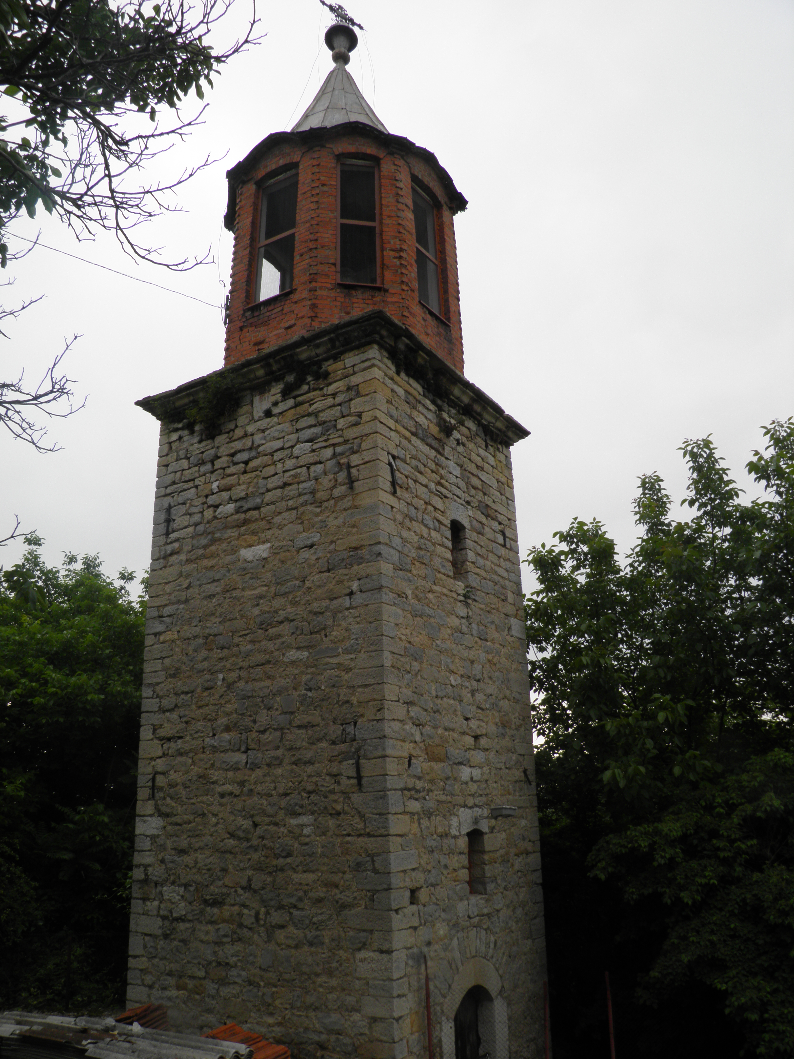 Bell tower Samovodene,Bulgaria